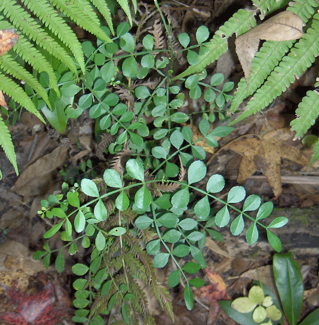 Found in Highlands Hammock State Park, Florida